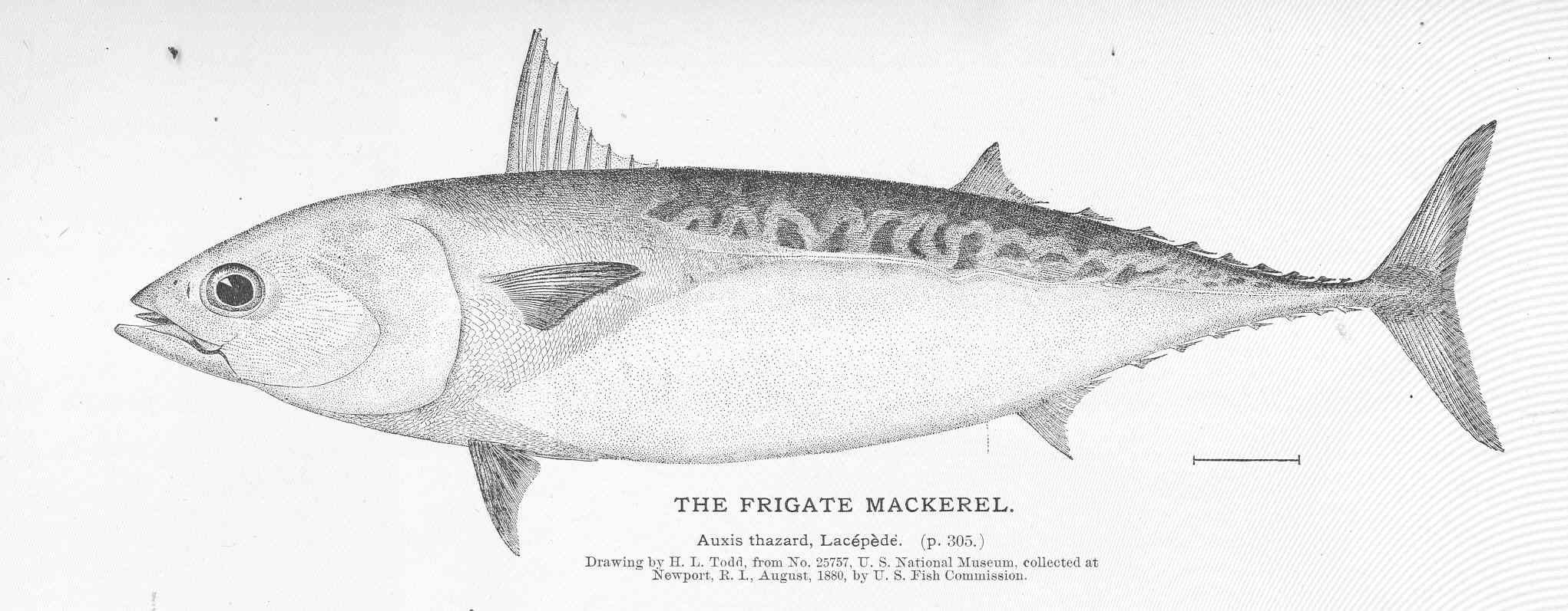 Frigate Mackerel Auxis thazard, Lacepede Subject: Auxis Tag: Fish